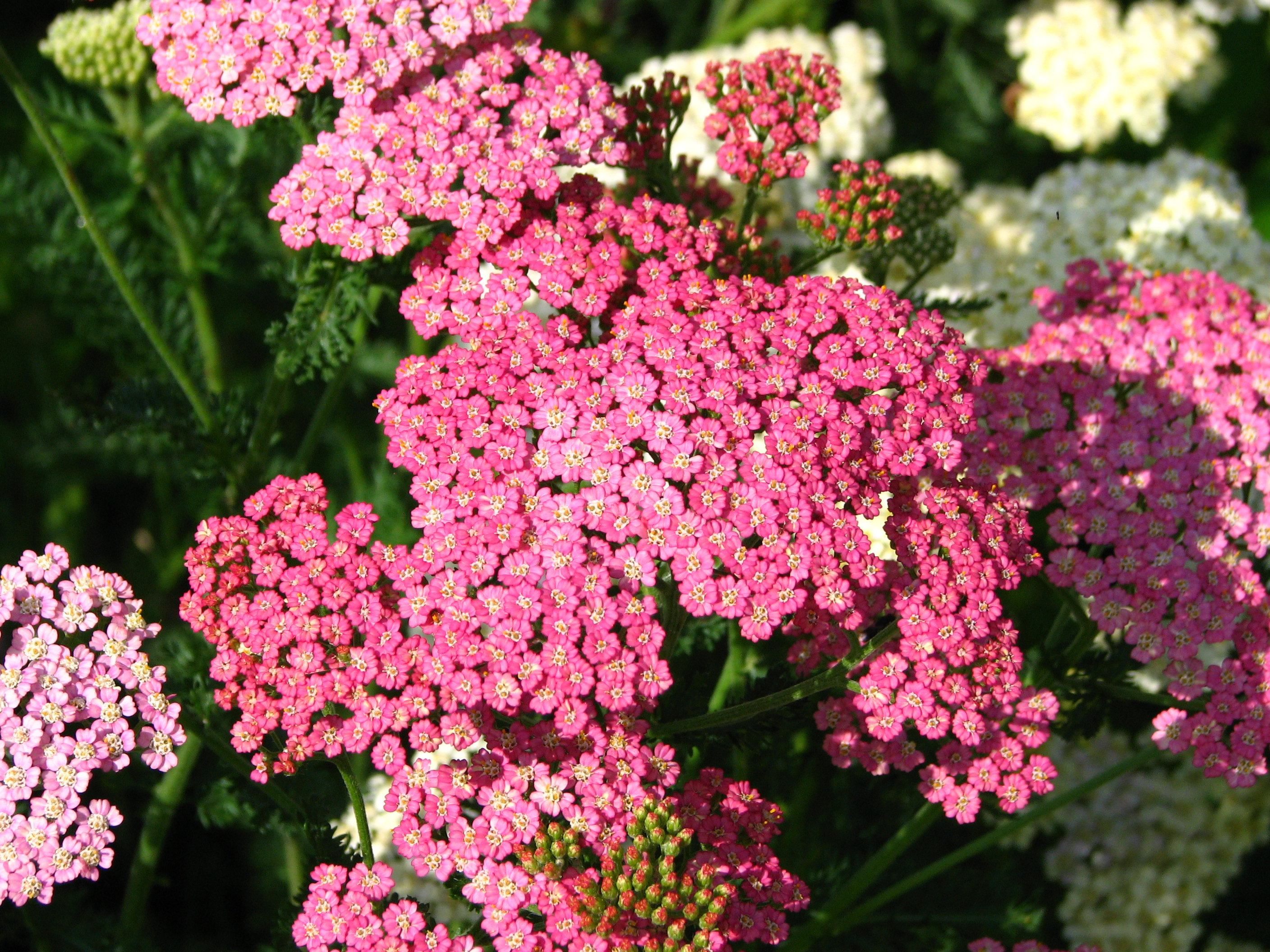 Flower beds in park Kolomenskoye (Moscow).